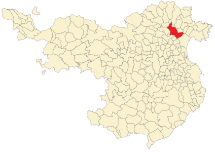 Peralada